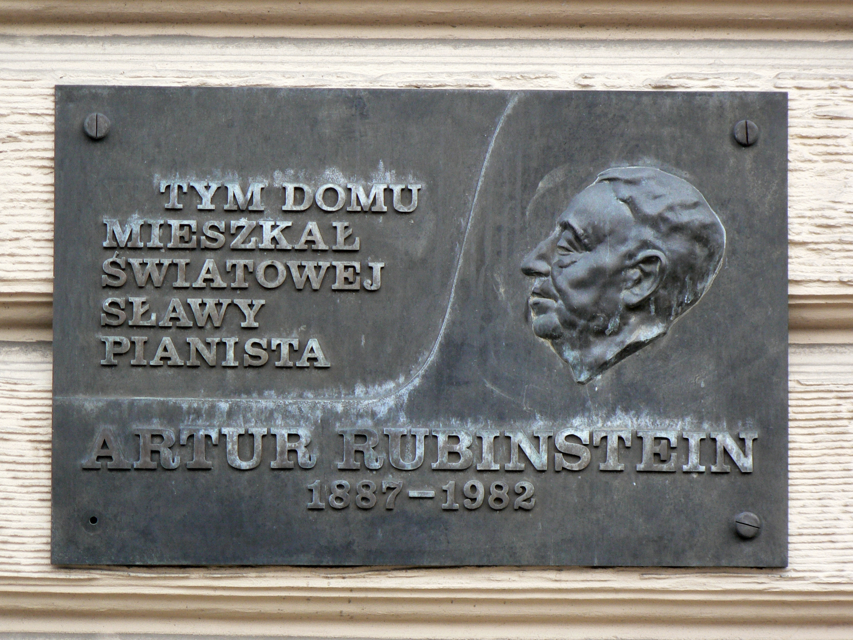 Memorial plaque: "In this house lived a world famous pianist Artur Rubinstein 1887-1982". 78 Piotrkowska Street, Łódź.